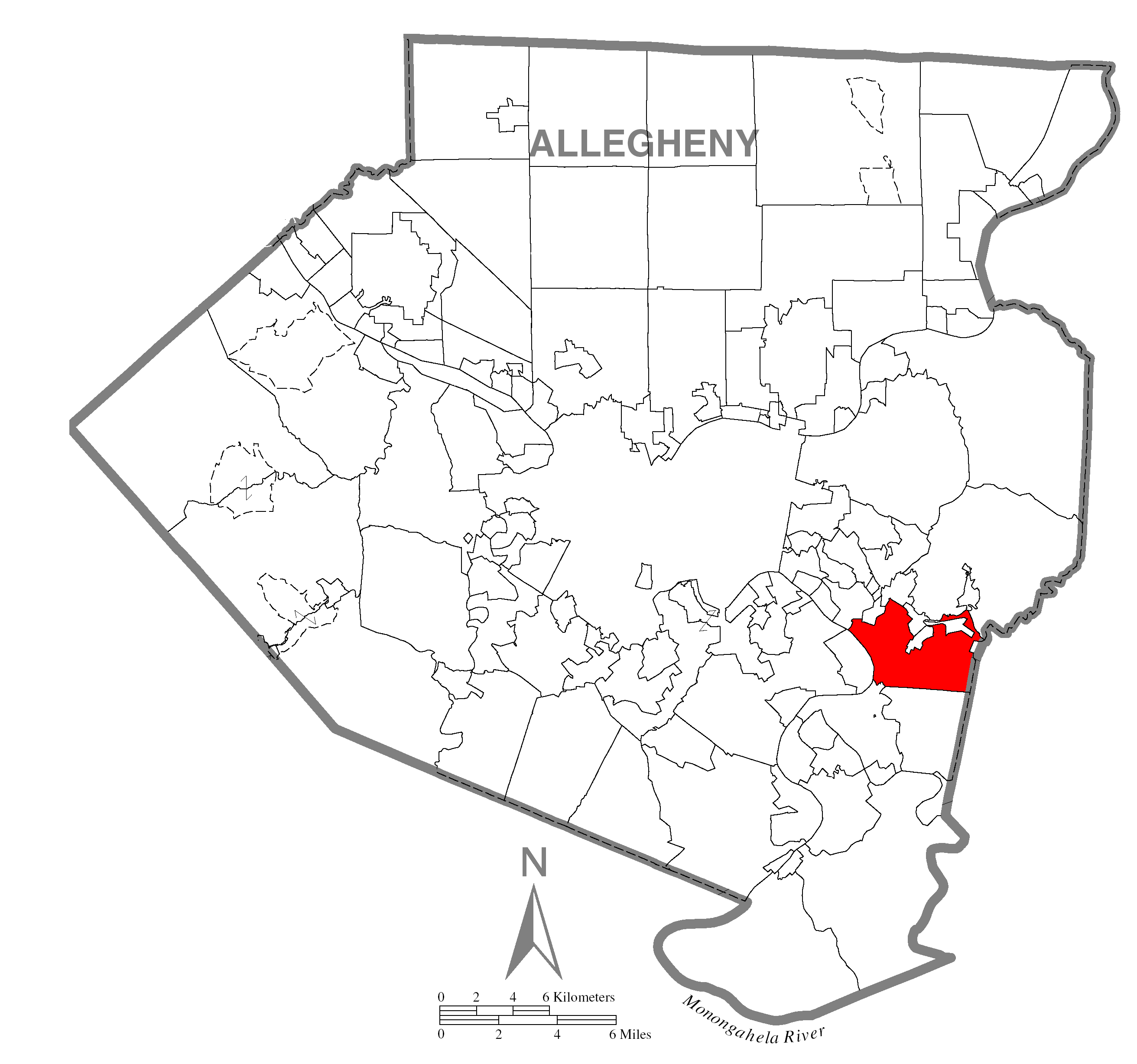 A map of Allegheny County showing North Versailles Township, Pennsylvania (alternate) highlighted on the map.